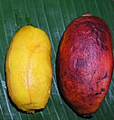 Karat banana (centre right, and far right) is high in beta-carotene and provitamin A carotenoids. Karat (Musa spp), is a Fe'i banana of the Australimusa series.